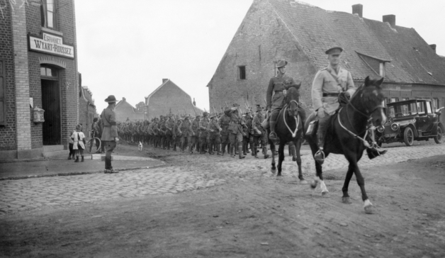 Colonel M Wilder-Neligan DSO DCM, on horseback, leading a parade of the 9th Battalion through a town street past General Birdwood (not visible). The battalion is en route to the Ypres front. Several civilian onlookers, including children, are visible. The building on the left, Estaminet Wyart-Roussez, is a bar.